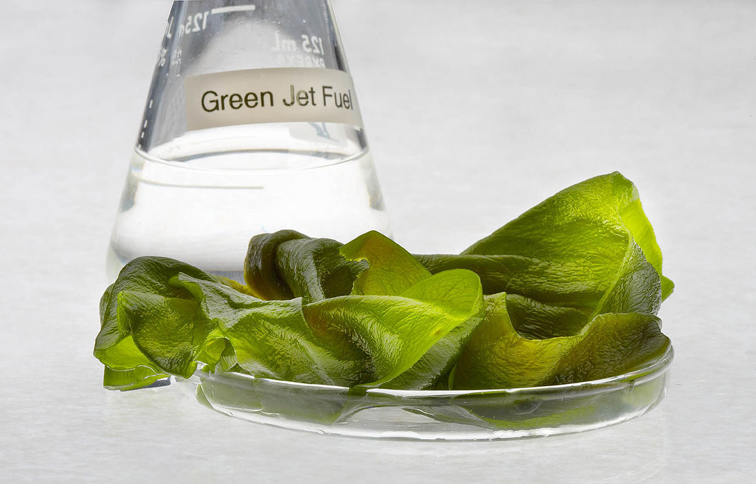 An image of Honeywell's Green Jet Fuel produced with algae in a beaker.